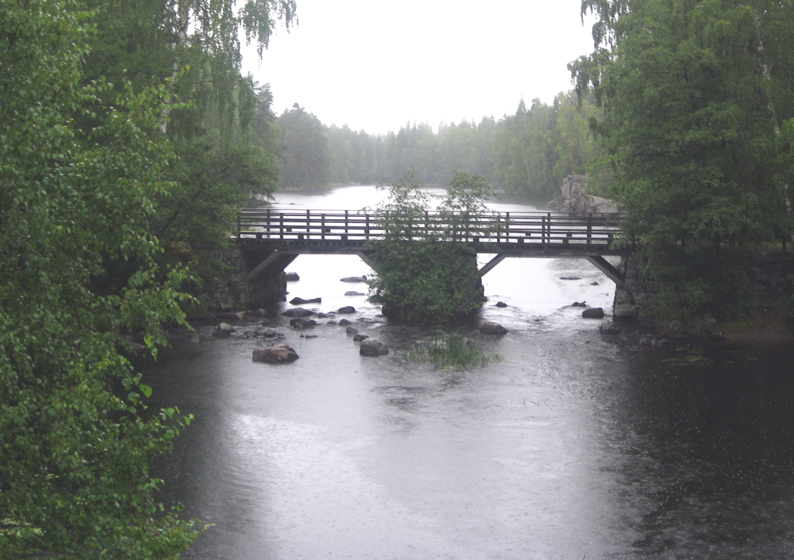 Viheri museum bridge, Joutsa Finland. Built in 1900. Rainy evening.